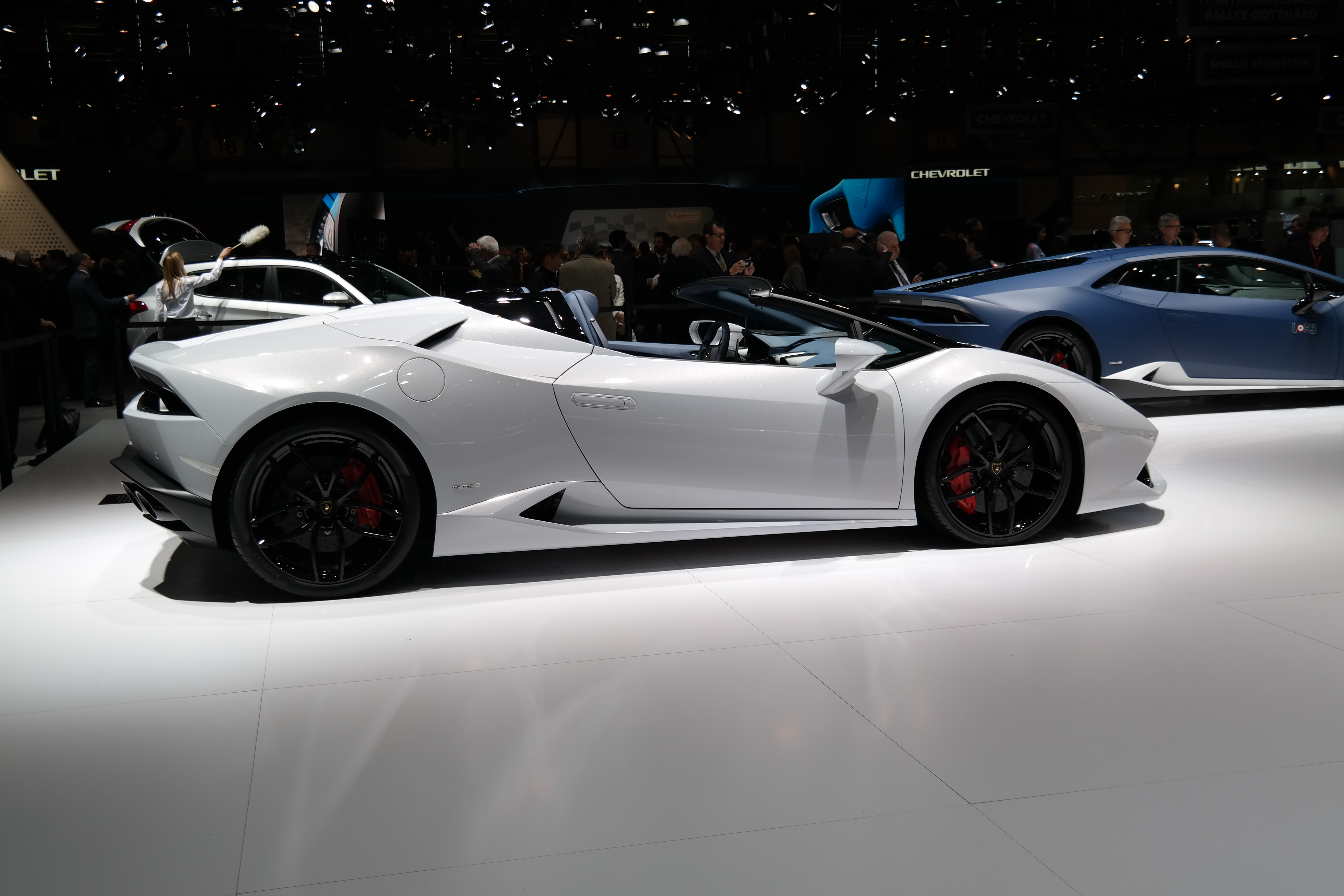 Geneva Motor Show 2016 (photo taken on the first press day)